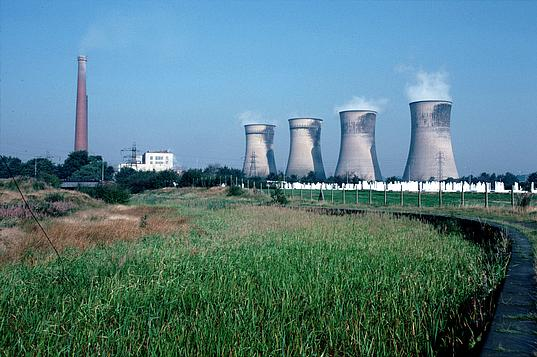 MBB Canal as it ran north past Agecroft Power Station (now demolished)